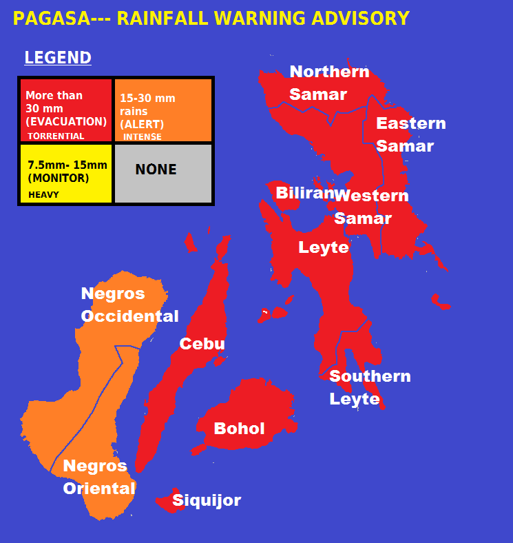 PAGASA raised rainfall warning advisory in the Central and Eastern Visayas during the passage of Super Typhoon Haiyan (Yolanda)